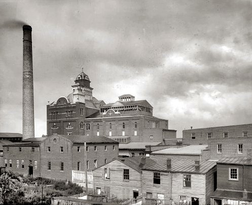 National Capital Brewing Company located at 14th and D Streets, SE in Washington, D.C. The company owned several bars in the city, but began making Carry's Ice Cream when the Eighteenth Amendment (Prohibition) was passed in 1919.